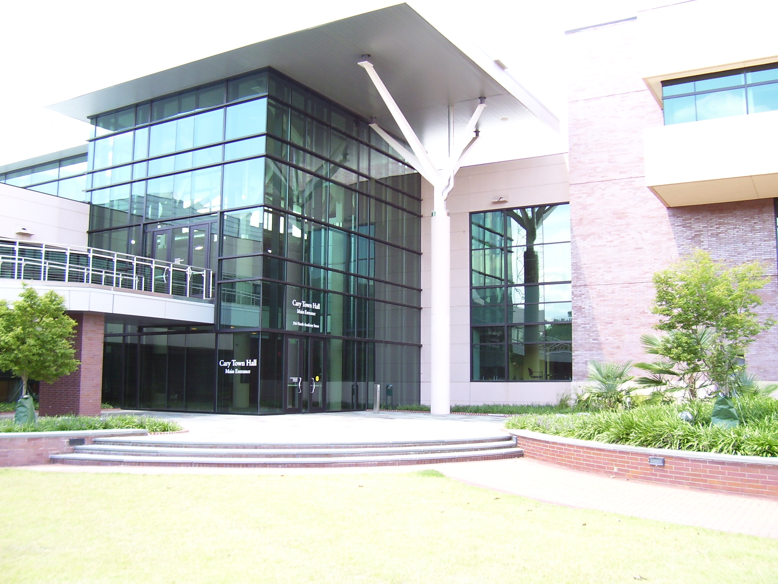 Picture of the Town Hall in Cary, North Carolina. Picture taken in July, 2007 by HeavenlyHedgehog (English Wikipedia User). File:CaryTownHall.jpg by HeavenlyHedgehog, 7/23/2007 1:56 (UTC)